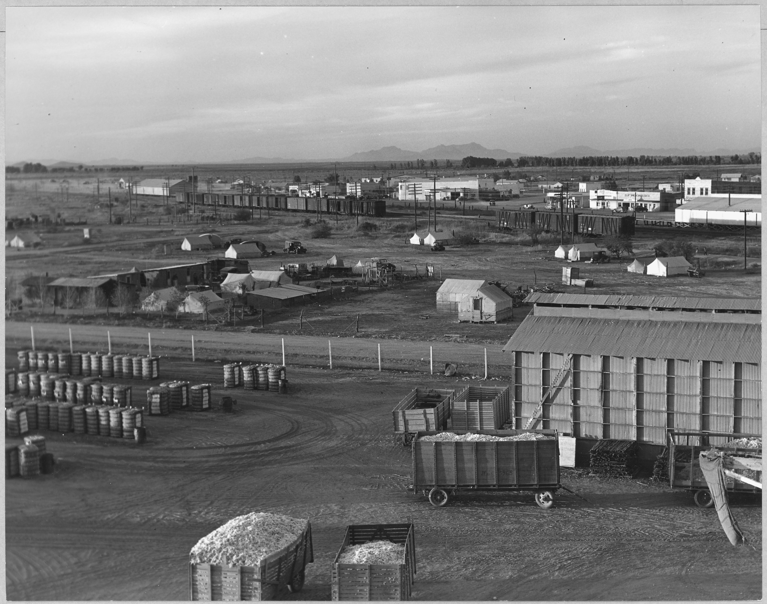 Scope and content: Full caption reads as follows: Eloy District, Pinal County, Arizona. Cotton pickers' squatter camp seen across the ginyard, lettuce shed, and main street of Eloy beyond. This camp is adjacent to town, obtains water from a single hydrant from the gin. Sanitary facilities are virtually absent.